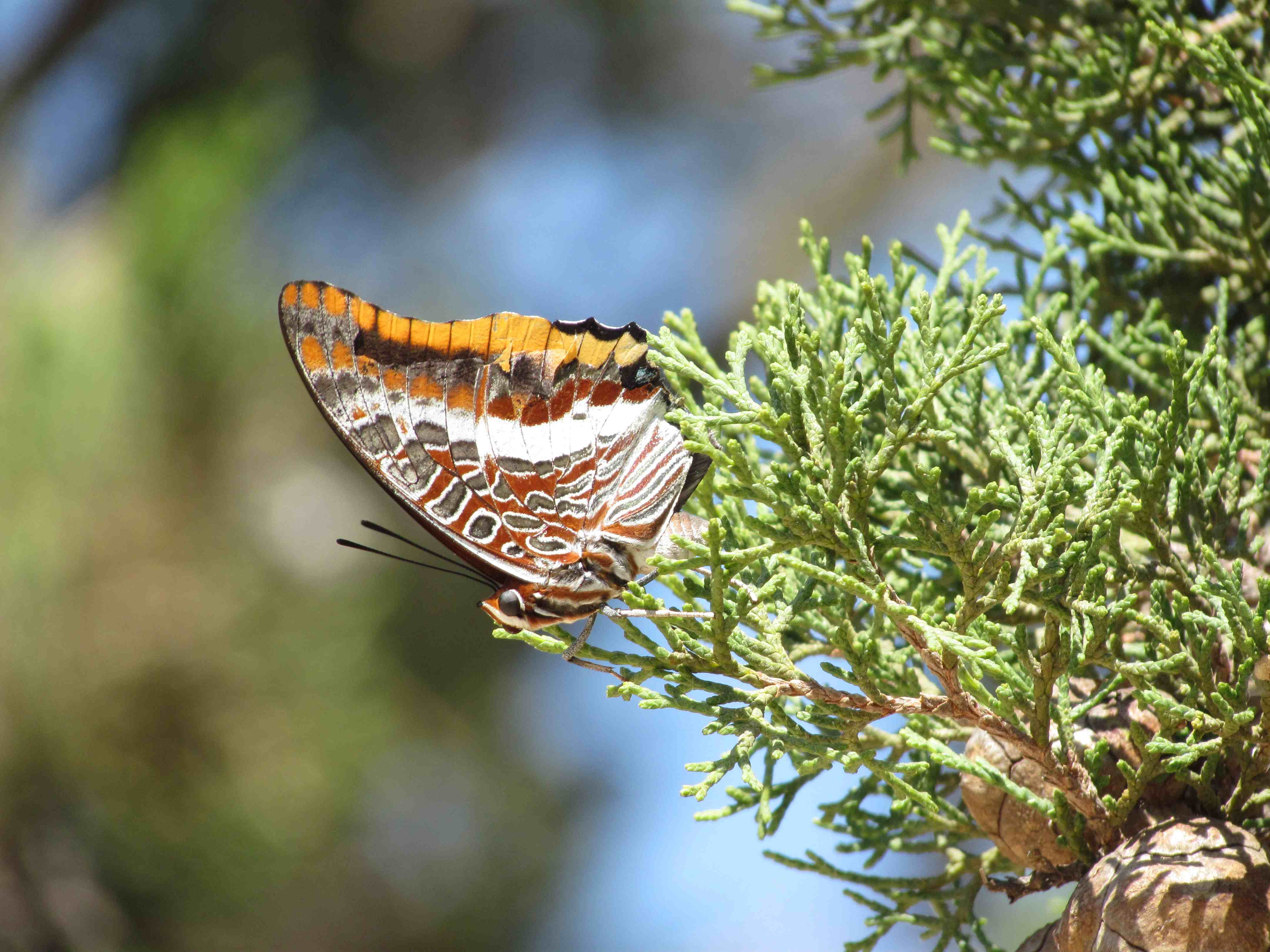 נימפית הקטלב (Charaxes jasius) 25 ביולי 2012 הר הטייסים